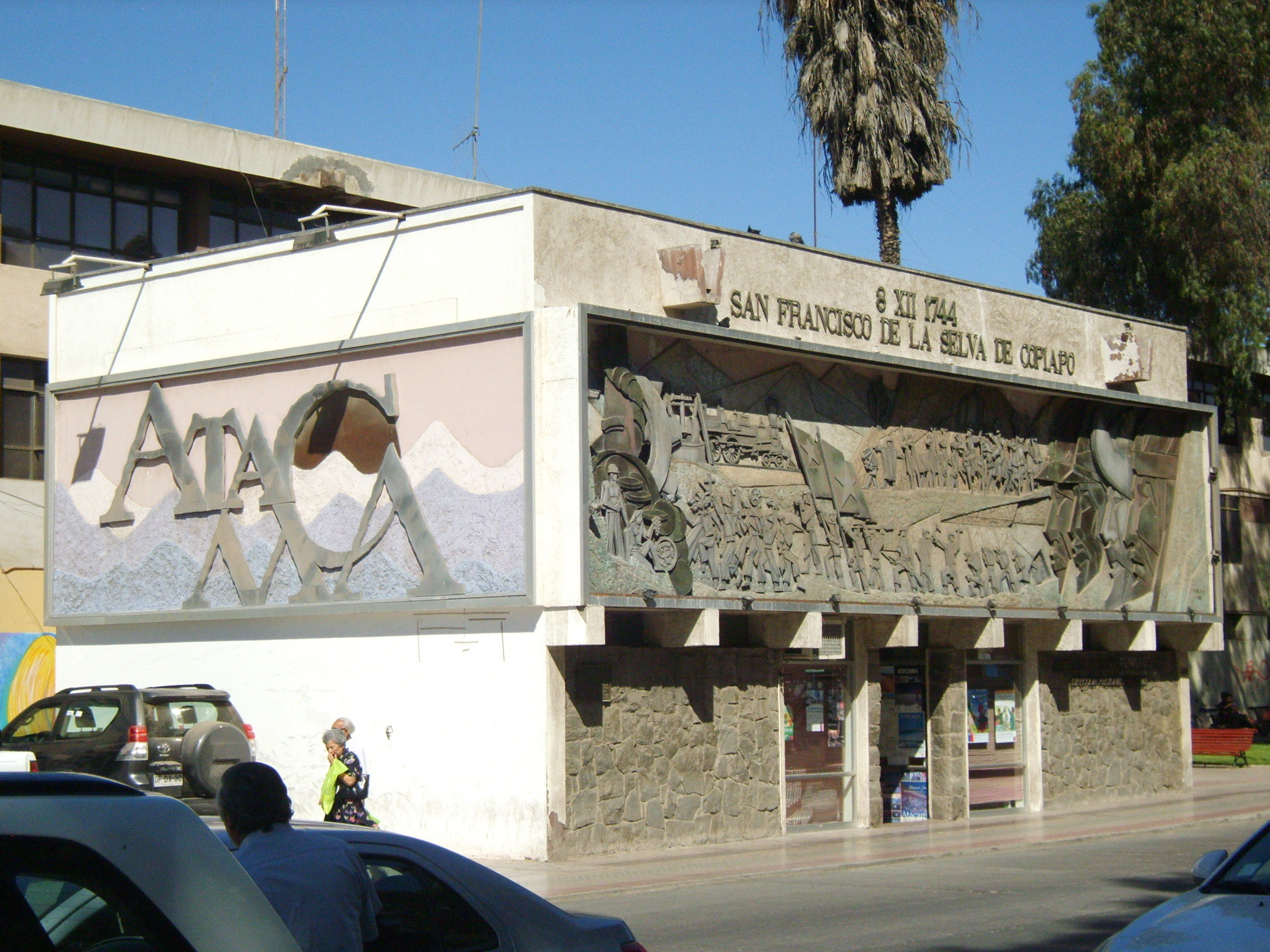 Building of National Tourism Service at Copiapó, Chile.